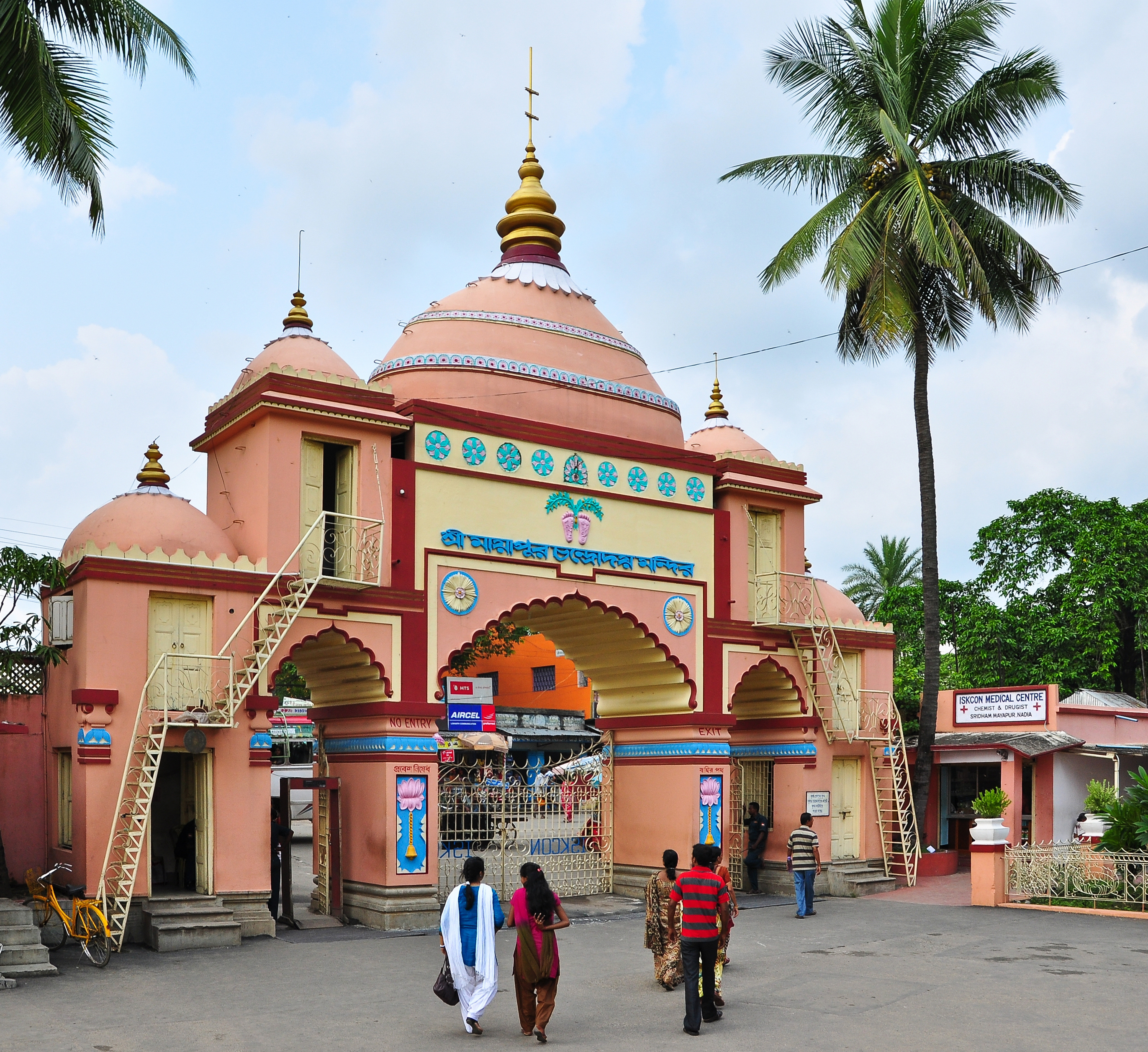 Main gate of ISKCON, Mayapur, West Bengal, India.